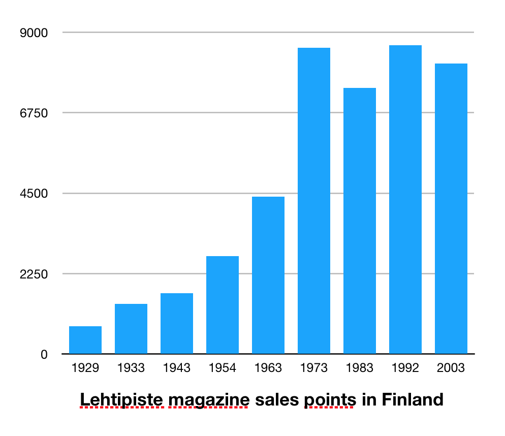 Finnish newsstand chain Lehtipiste's growth in terms of sales outlets 1929–2009. Source for tabular data: Mikkonen, Isto & Tamminen, Seppo & Laakso, Mikko: Vuosisadan rakkaustarina. Rautakirja 1910-2010. Rautakirja, 2010. ISBN 978-951-9194-99-8.